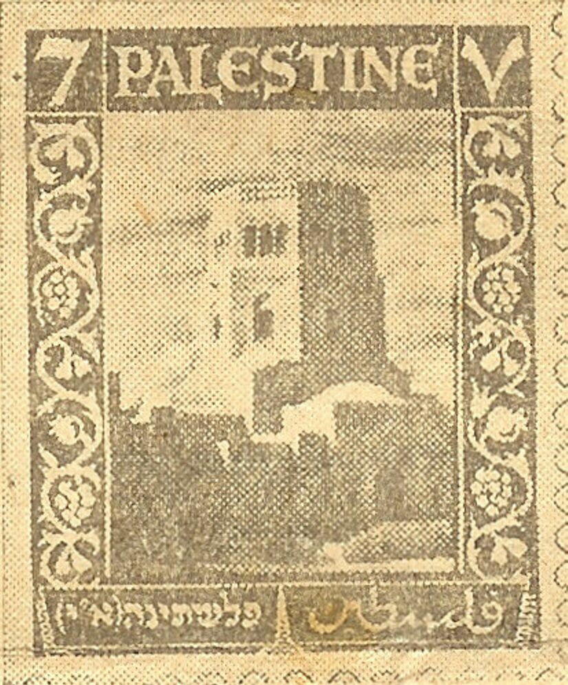 EI - Mandate - unaccepted 1